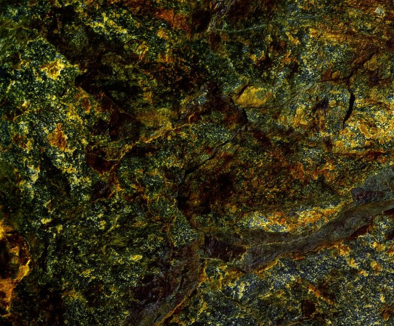 This is mineral